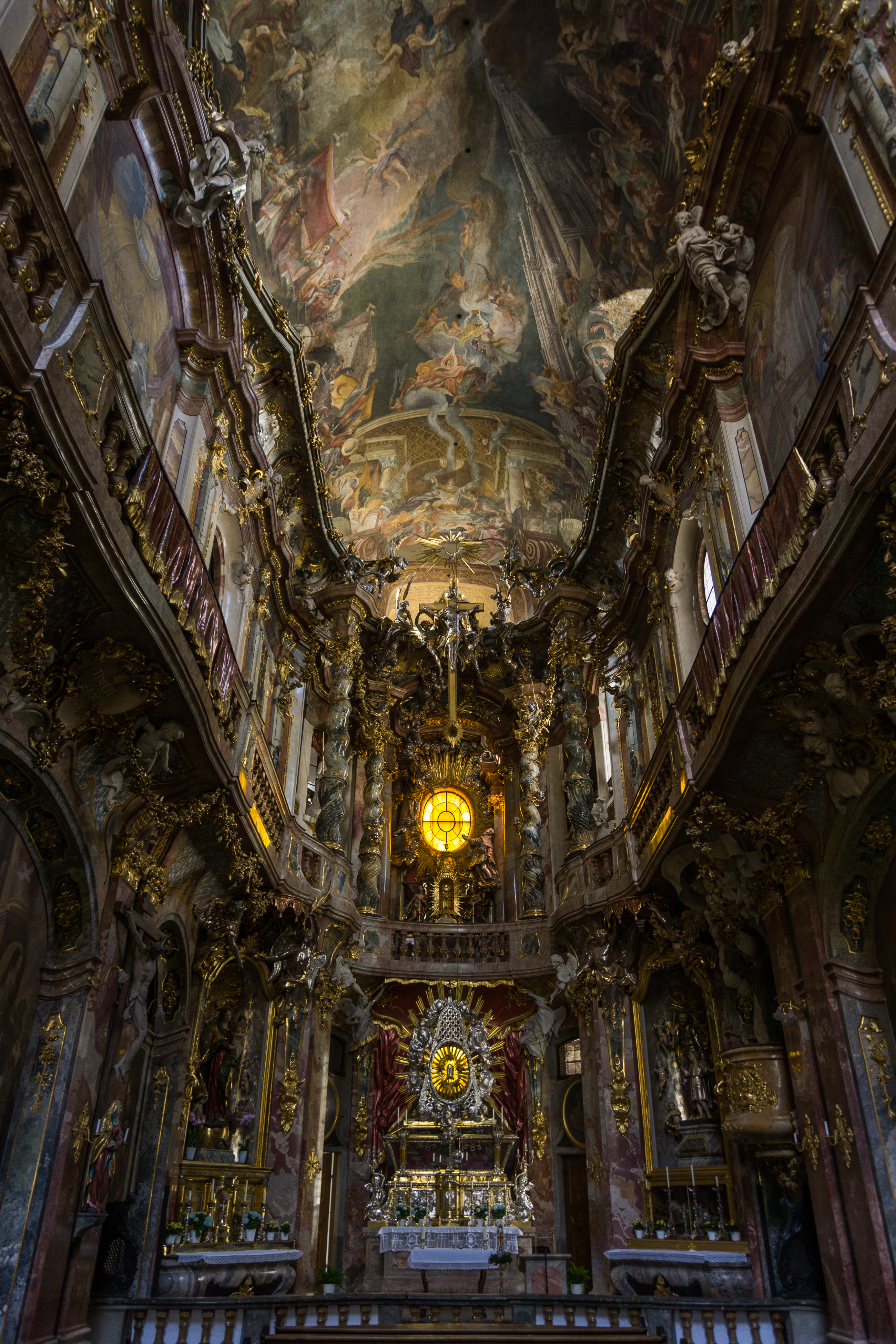 Asam church in old city, Munich, GermanyThis is a photograph of an architectural monument.